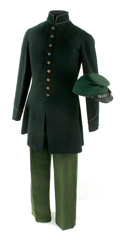 Uniform and hat of soldiers of the 1st Regiment of U.S. Sharpshooters, better known as Berdan's Sharpshooters. acket of army wool dyed a distinctive green color. Green wool forage cap with leather trim. Frock coat of green wool with brass buttons were later replaced with hard, black rubber buttons to prevent reflection from the light. The Smithsonian’s National Museum of American History Collection.